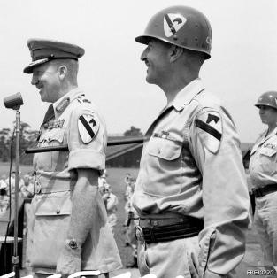 The first Australian soldier to be made an honorary member of the First United States Cavalry Division is Lieutenant General (Lt Gen) H C H Robertson, Commander in Chief British Commonwealth Occupation Force (BCOF). He is pictured here wearing the black and gold colour patch of the Division. Beside him is Major General W C Chase, Officer Commanding the United States First Cavalry Division. The induction ceremony was held at Camp Drake, near Tokyo. Lt Gen Robertson inspected the Division after the ceremony.